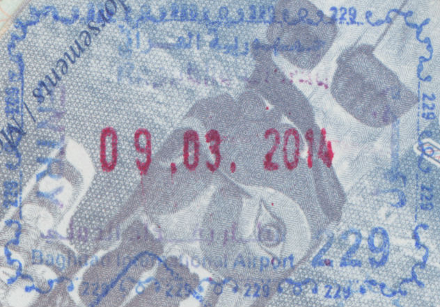 Iraq entry passport stamp from 2014. Air crossing.